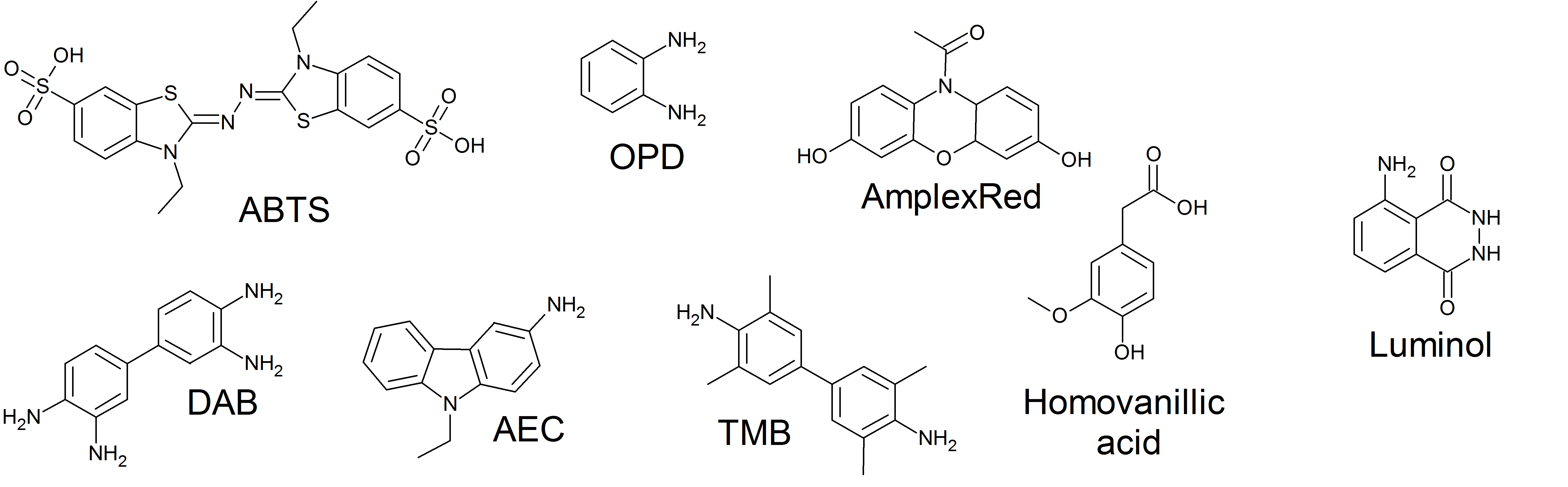 Structures of HRP substrates